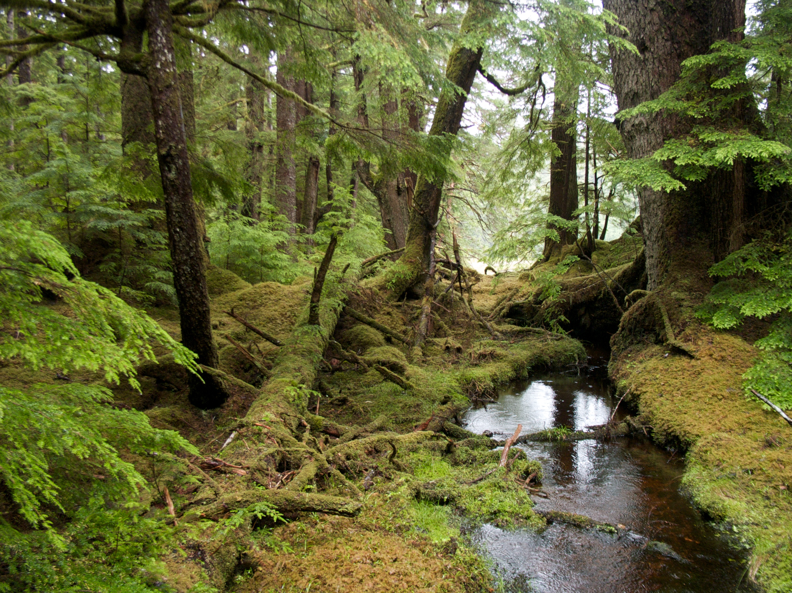 Windy Bay forest in Gwaii Haanas National Park Reserve